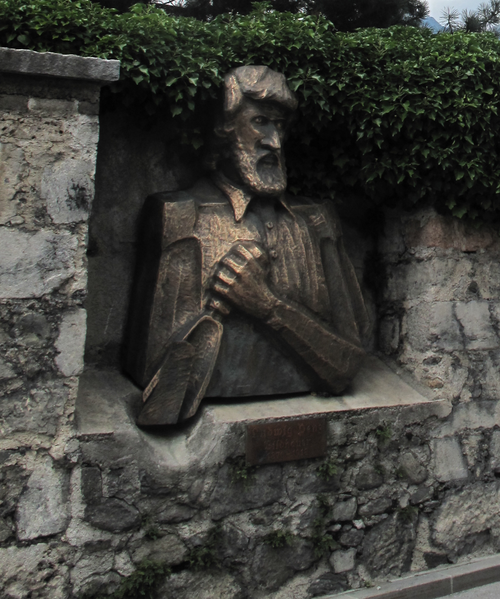 Schwaz, bust Ludwig Penz